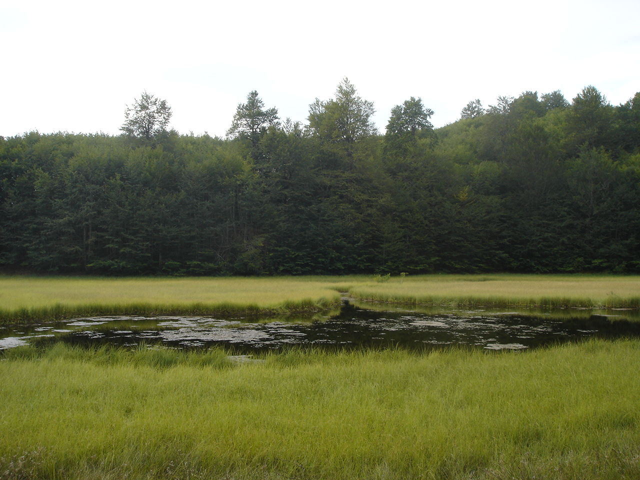 Lokuv lake on Deshat Mountain, Macedonia